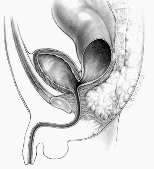 Picture of a rectobladder neck fistula